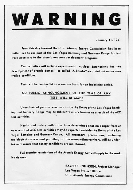 This U.S. Atomic Energy handbill was distributed 16 days before the first nuclear device was detonated at the Nevada Proving Ground, now the Nevada Test Site.